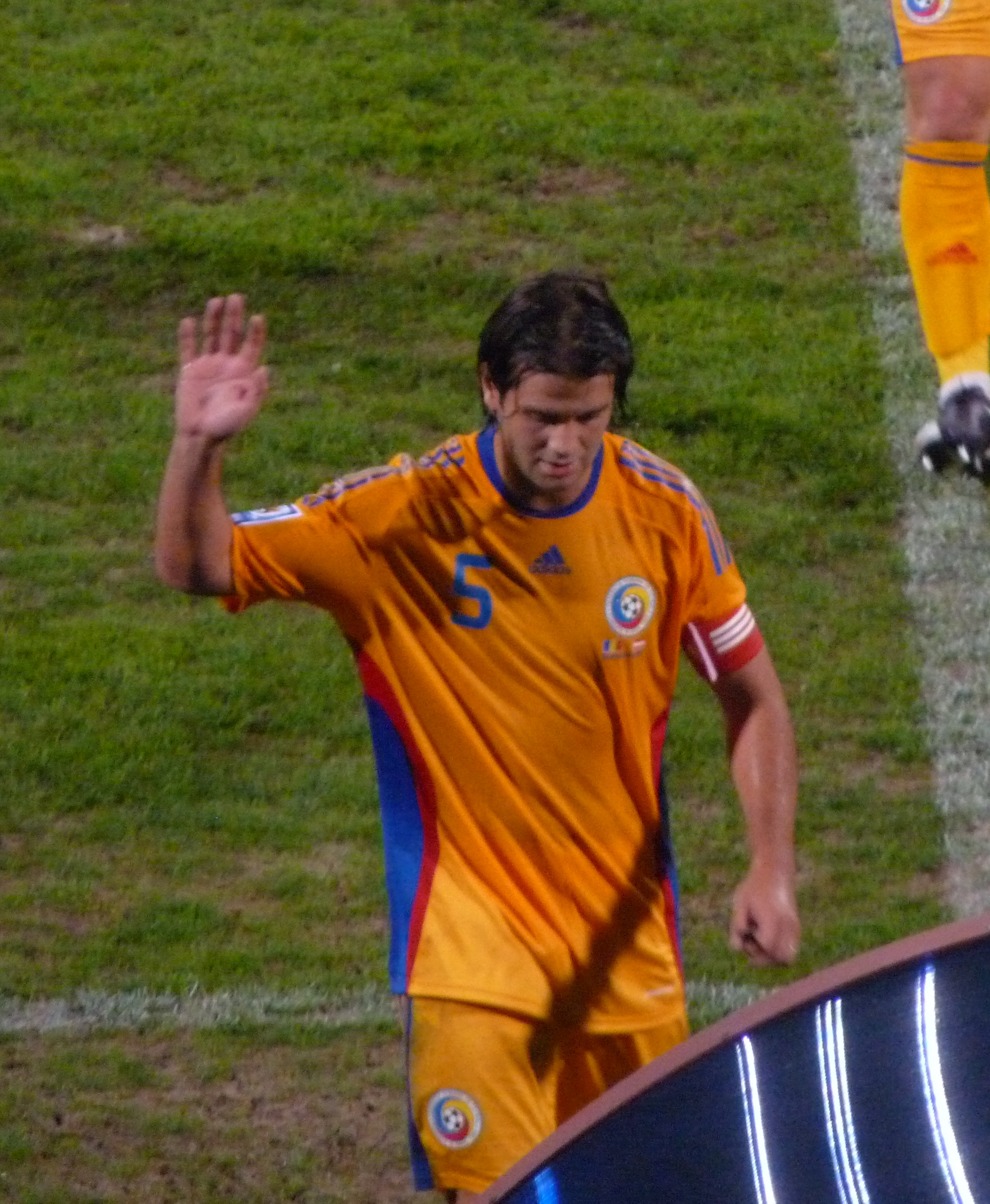 Cristian Chivu playing for the national football team of Romania against Austria on the Steaua stadium in Bucharest